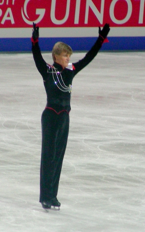 Tomáš Verner on the 2007 European Figure Skating Championships in Warsaw - after free skate